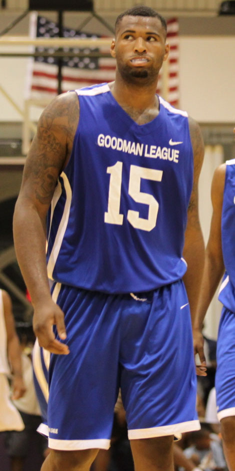 DeMarcus Cousins at the Drew League/Goodman League basketball game in August 2011 in Washington, DC.